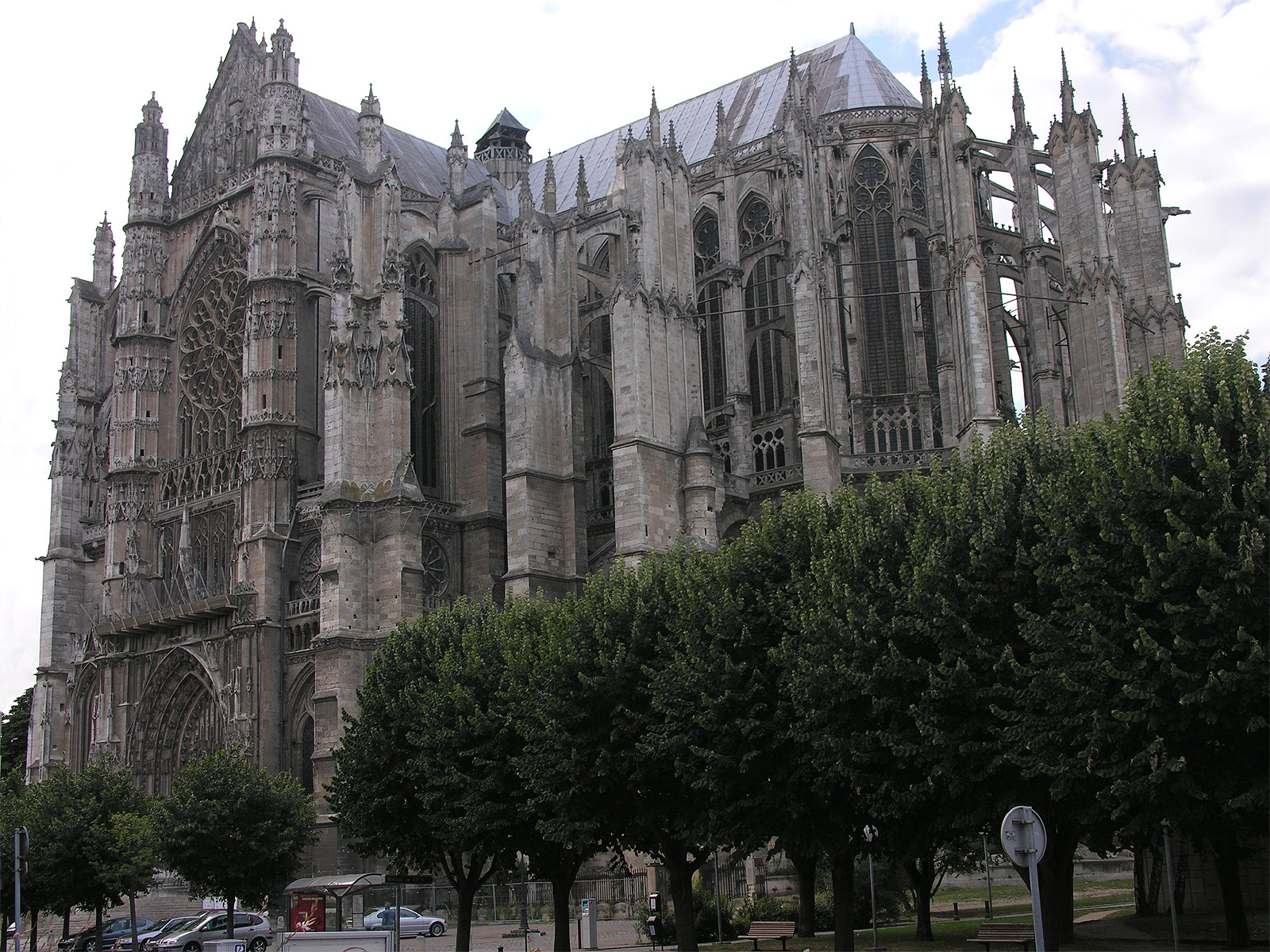 Beauvais Cathedral (France), southeast exterior